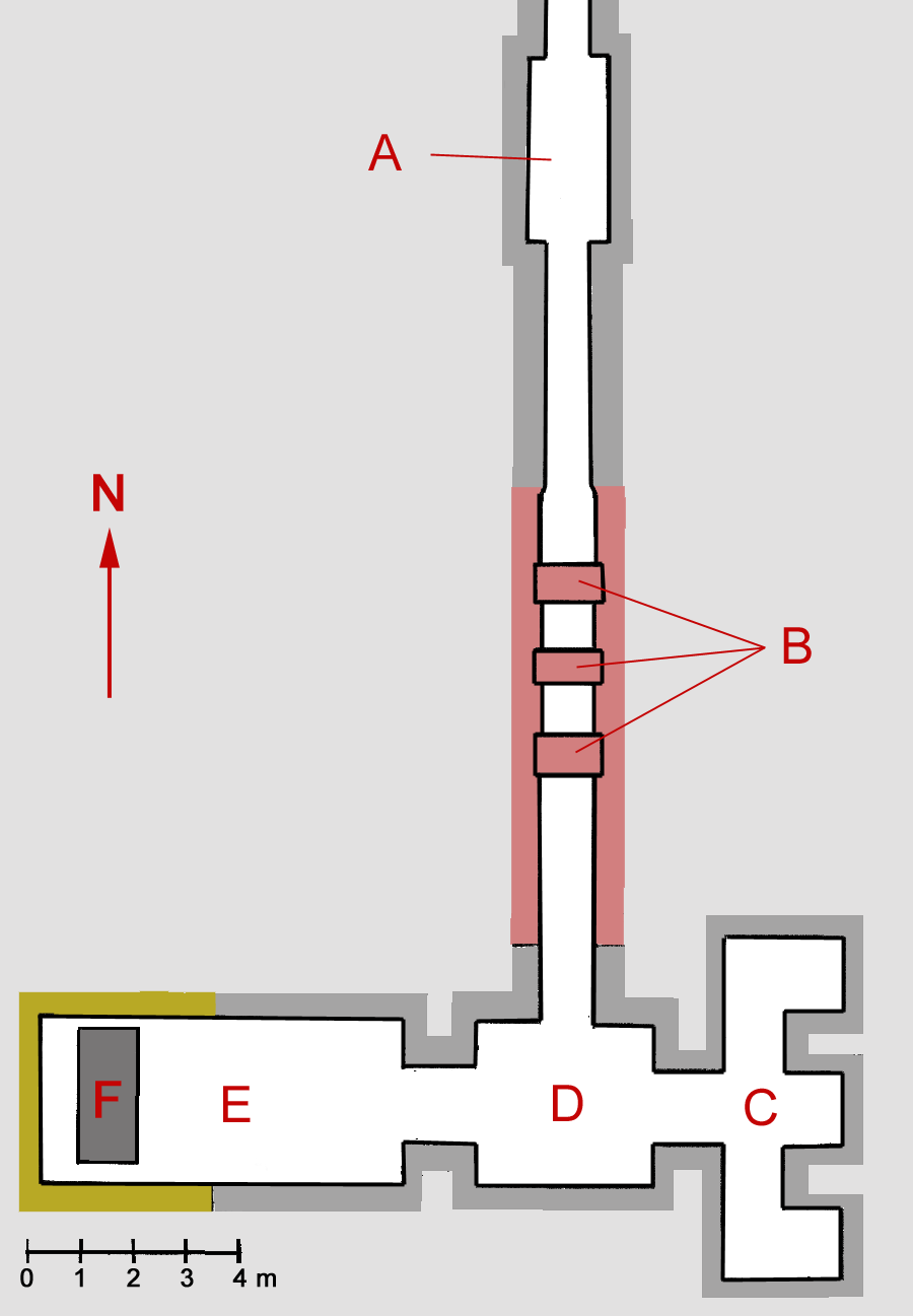 SUbstructure of the Pyramid of king Unas (grey: limestone; red: granite; green: alabaster)